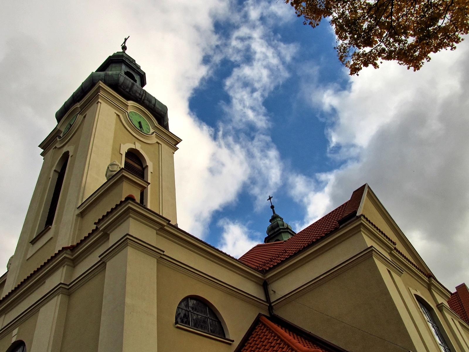 Church of St. Elizabeth Pinczyn